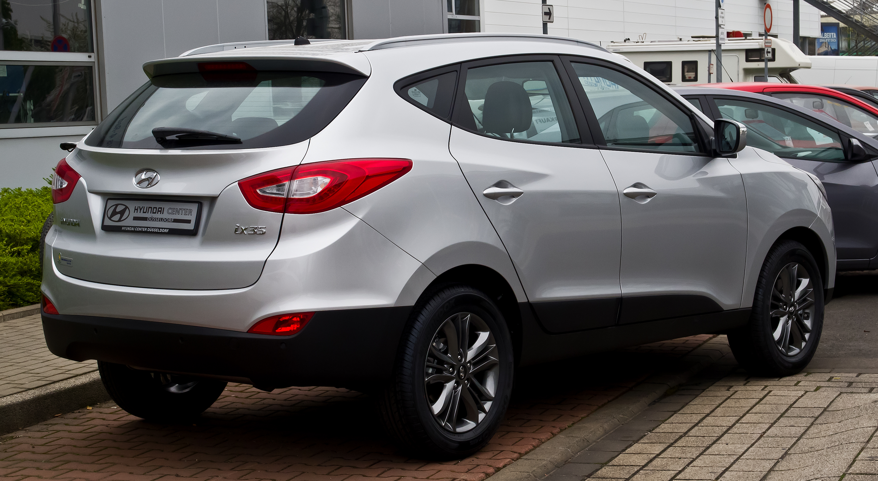 Hyundai ix35 FIFA World Cup Edition (Facelift)